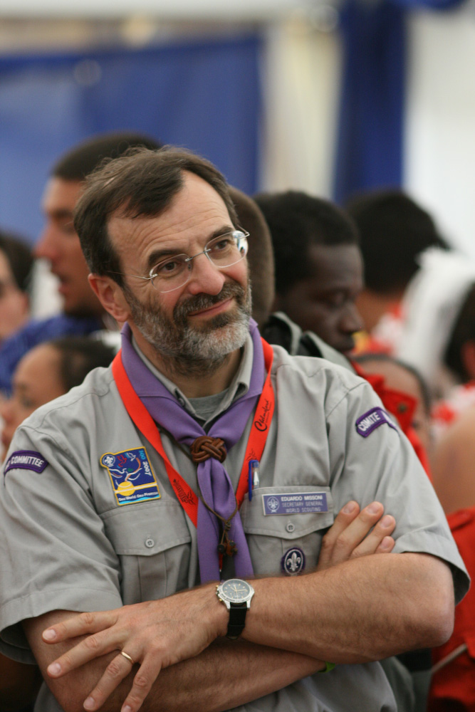 Eduardo Missoni, Secretary General of the WOSM, at the 2007 World Scout Jamboree.